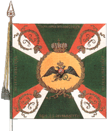 Standard of the 7th Samogitsky Grenadier Regiment